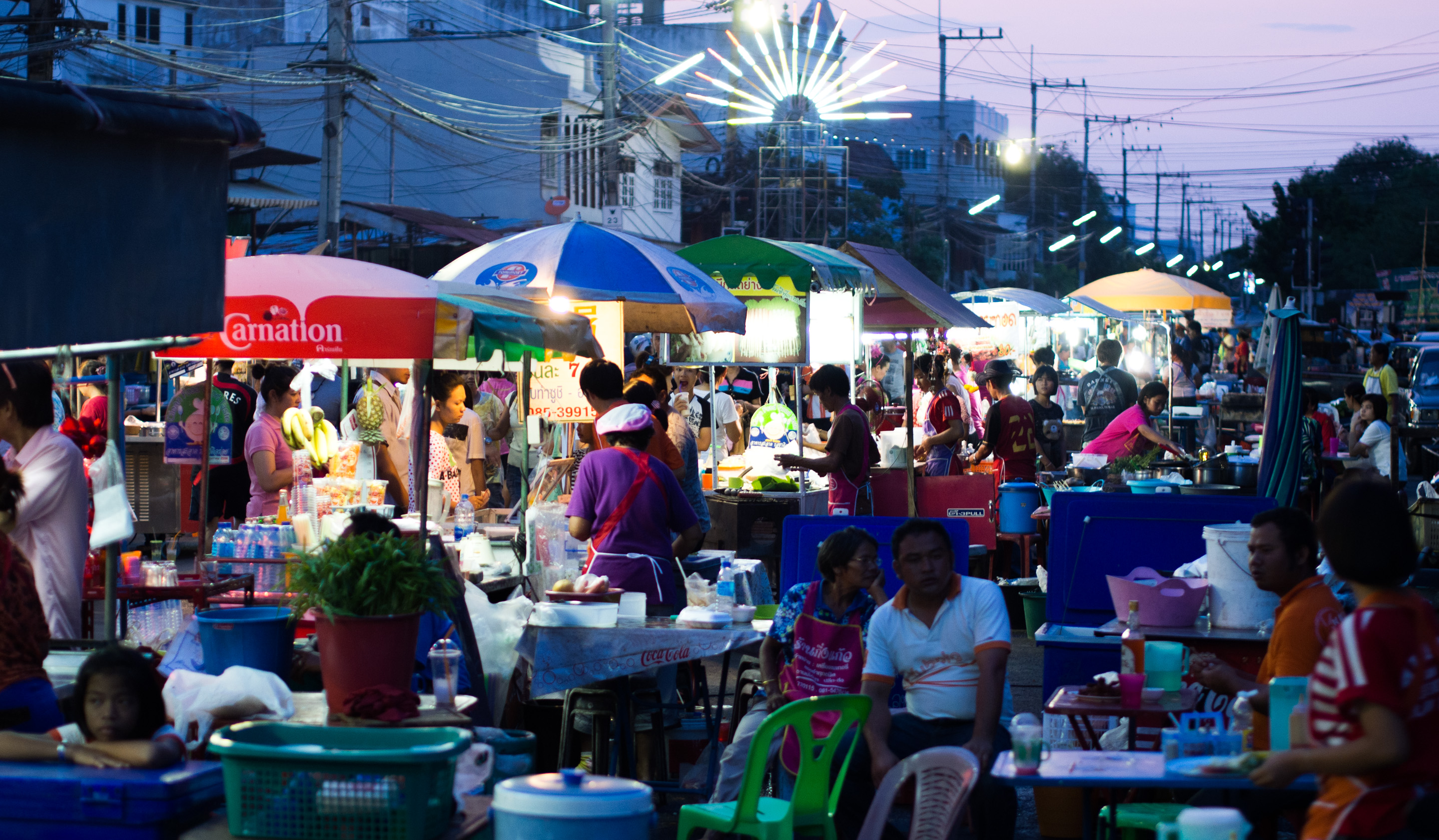 One of the main streets in Yasothon was turned into a street food market during the Yasothon Rocket Festival